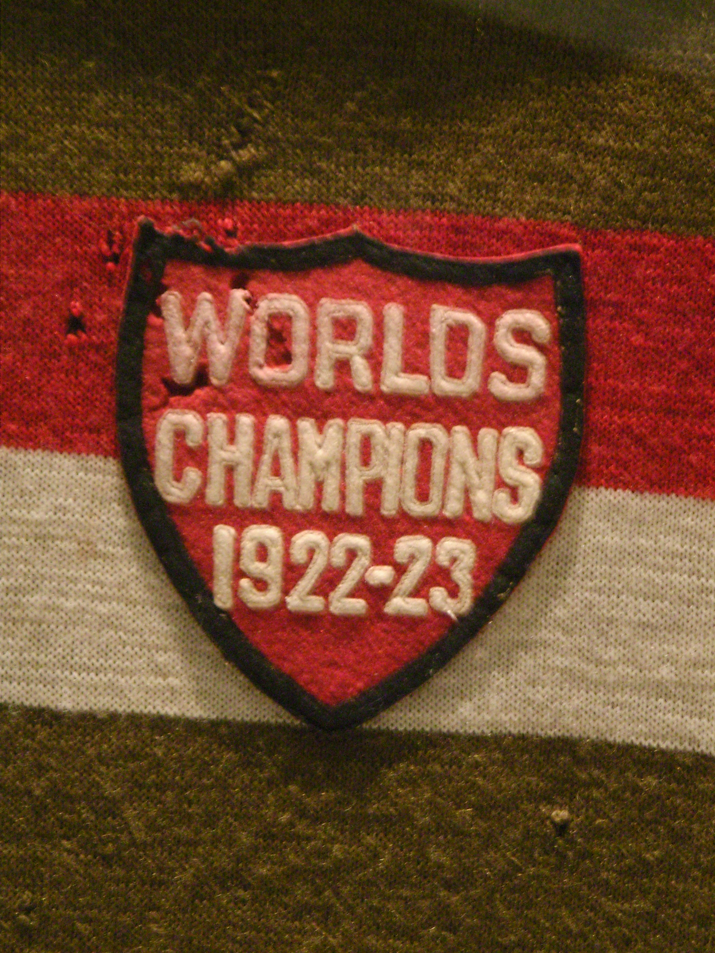 Close-up of patch worn by Ottawa Senators ice hockey team in the 1923-24 season.